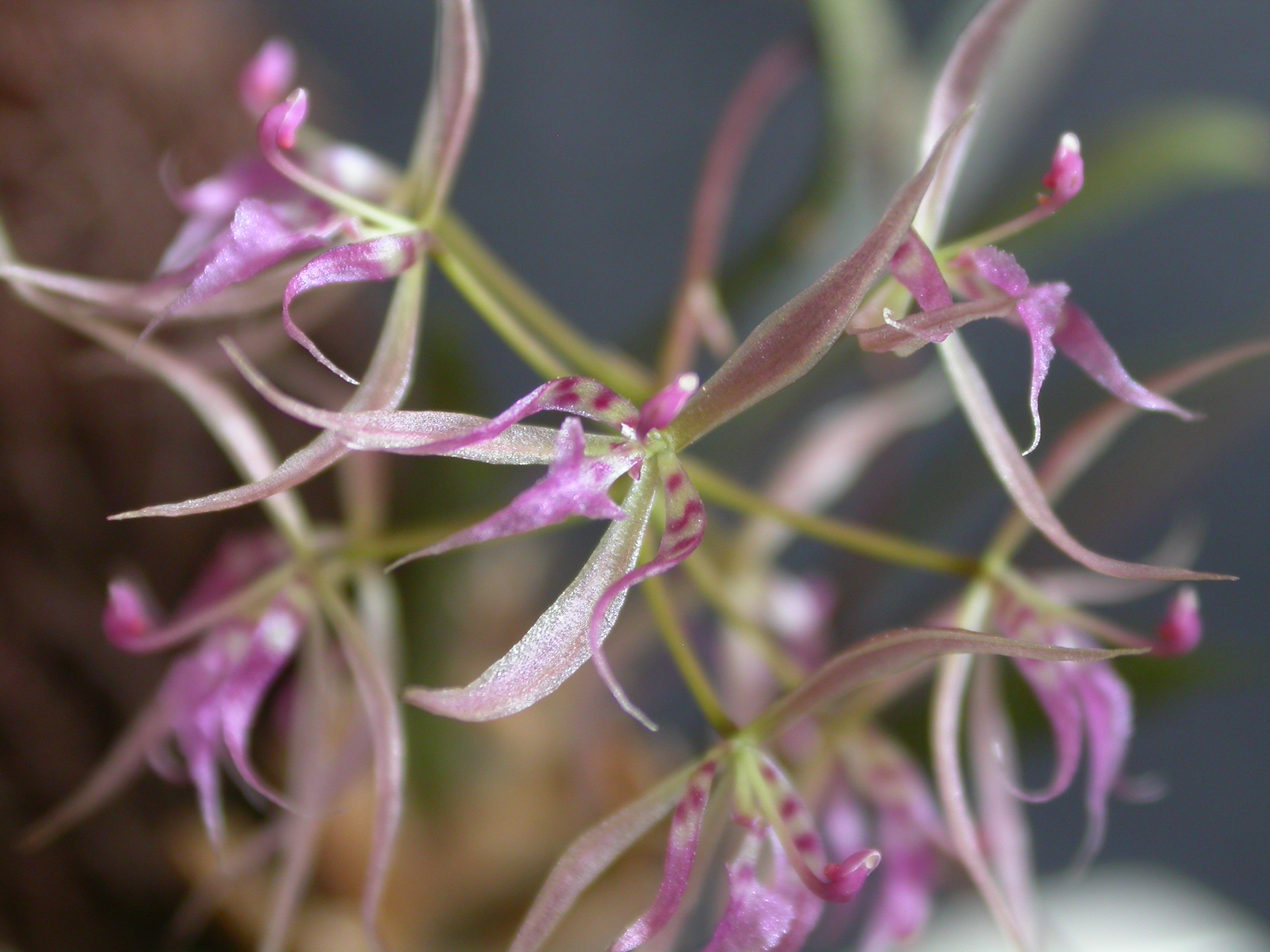 Macroclinium wullschlaegelianum